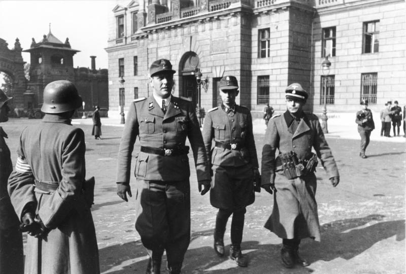 SS-Sturmbannführer Otto Skorzeny on the left; SS-Untersturmführer Adrian von Fölkersam is in the centre. The man on the right is supposed to be SS-Obersturmführer Walter Girg.